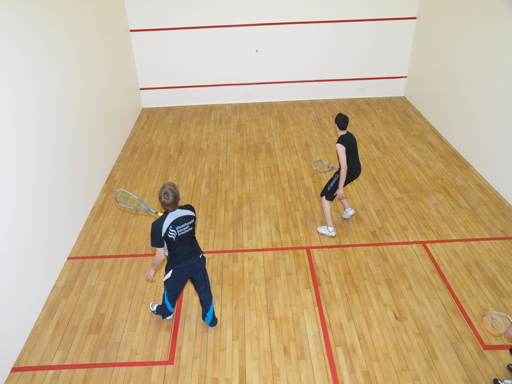 MGS Squash Courts